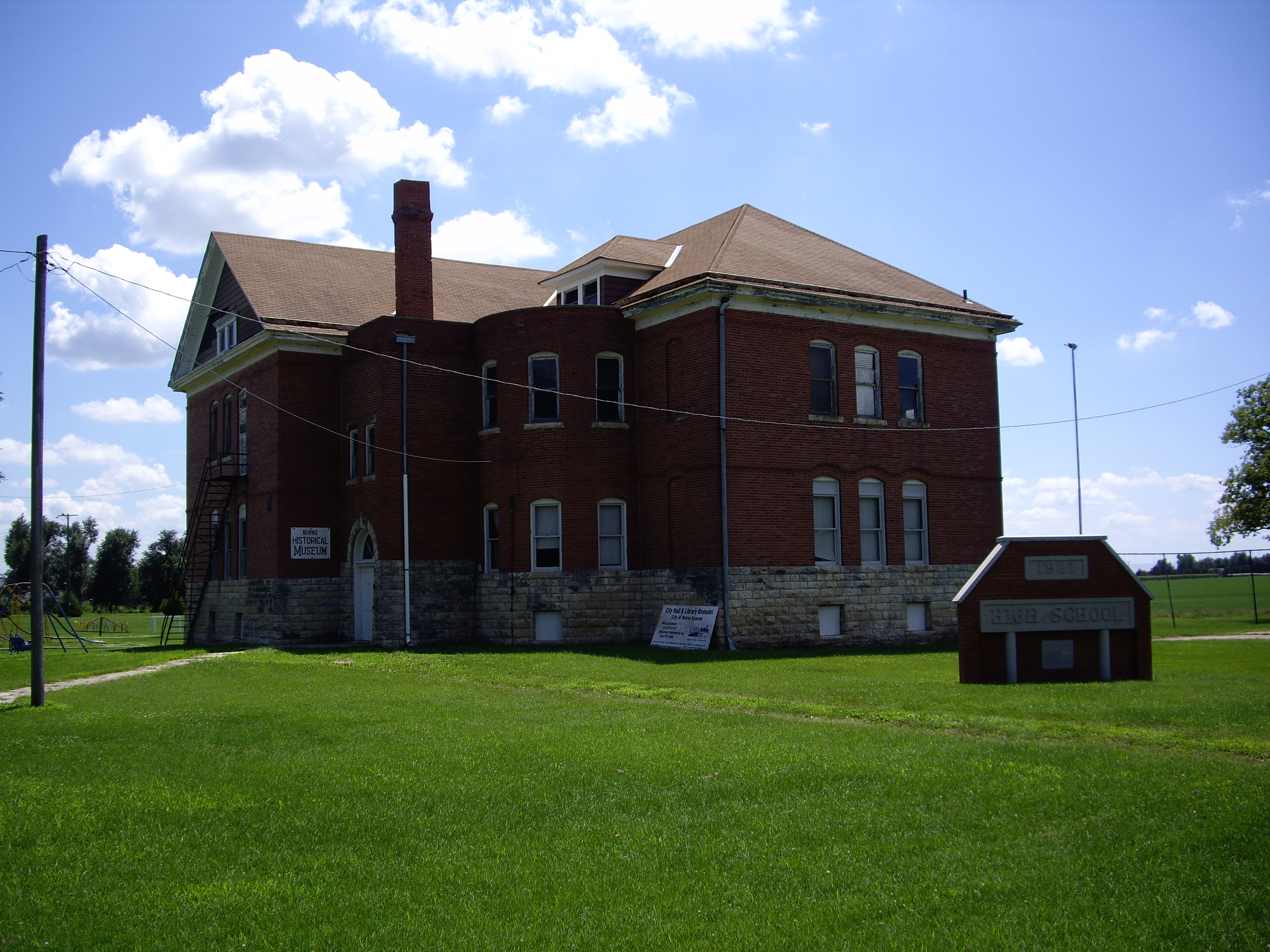 Burns Union School, southwest corner of Main St and Ohio Ave in Burns, Kansas, 66840, USA. Looking southwest. It is currently the Burns Community Museum. Photo by Steve Meirowsky on July 10, 2010.